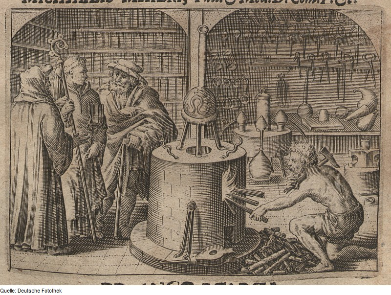 Original image description from the Deutsche Fotothek Theosophie & Alchemie